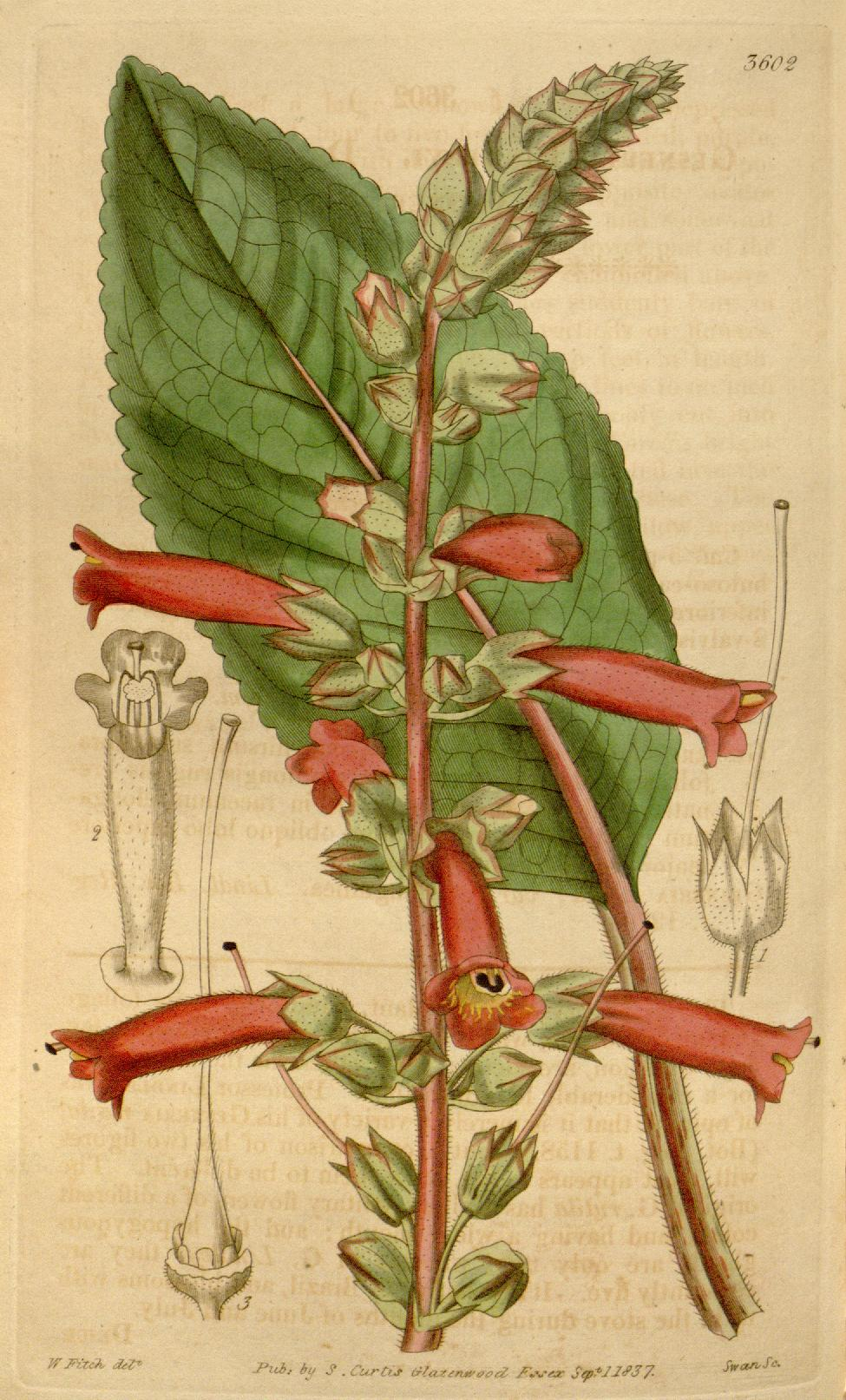 Sinningia warmingii, as Gesneria lindleyi